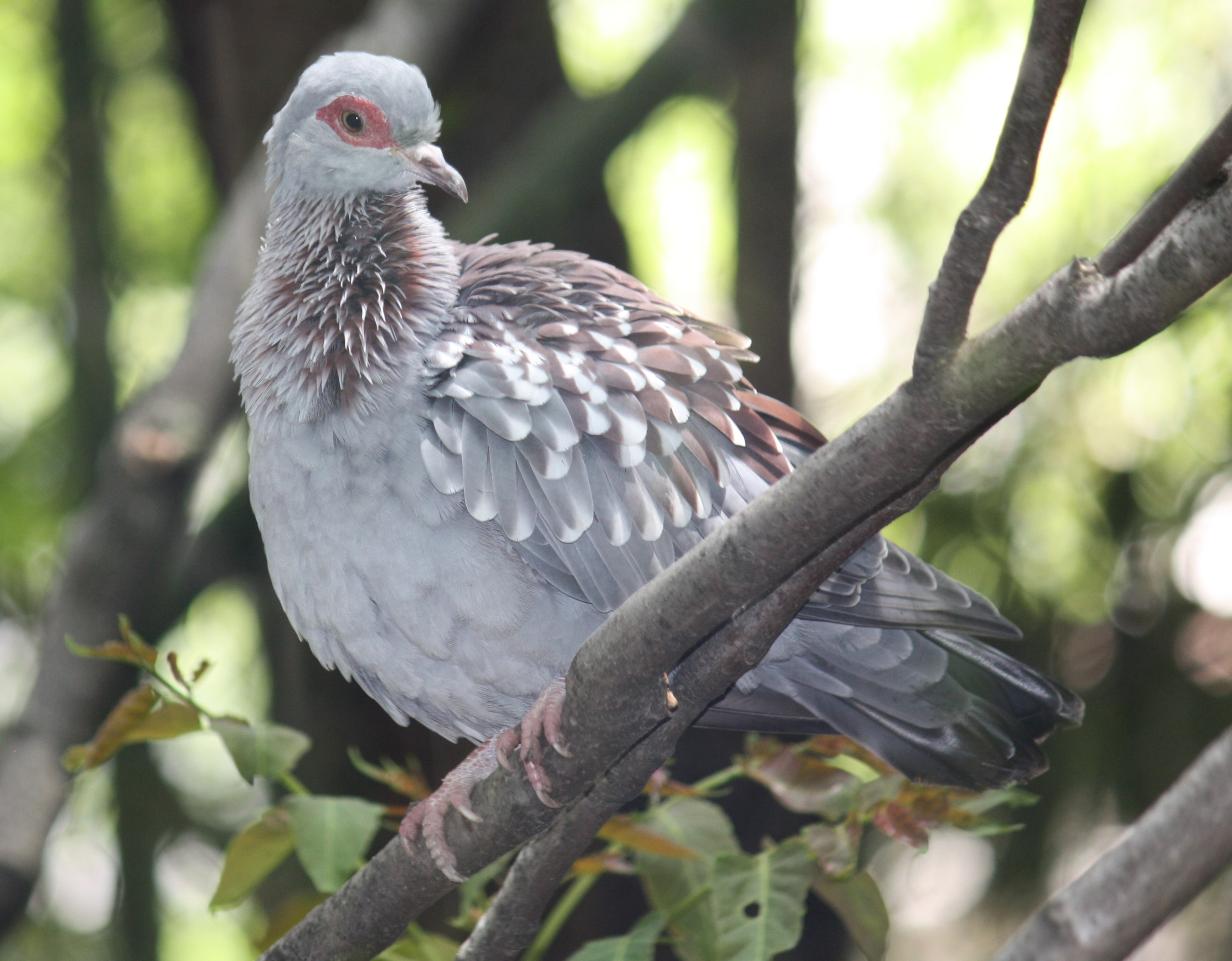 Speckled Pigeon Columba guinea at Cincinnati Zoo